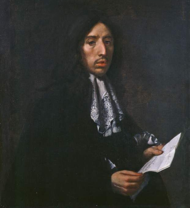 Sir John Finch, Original Fellow of Royal Society